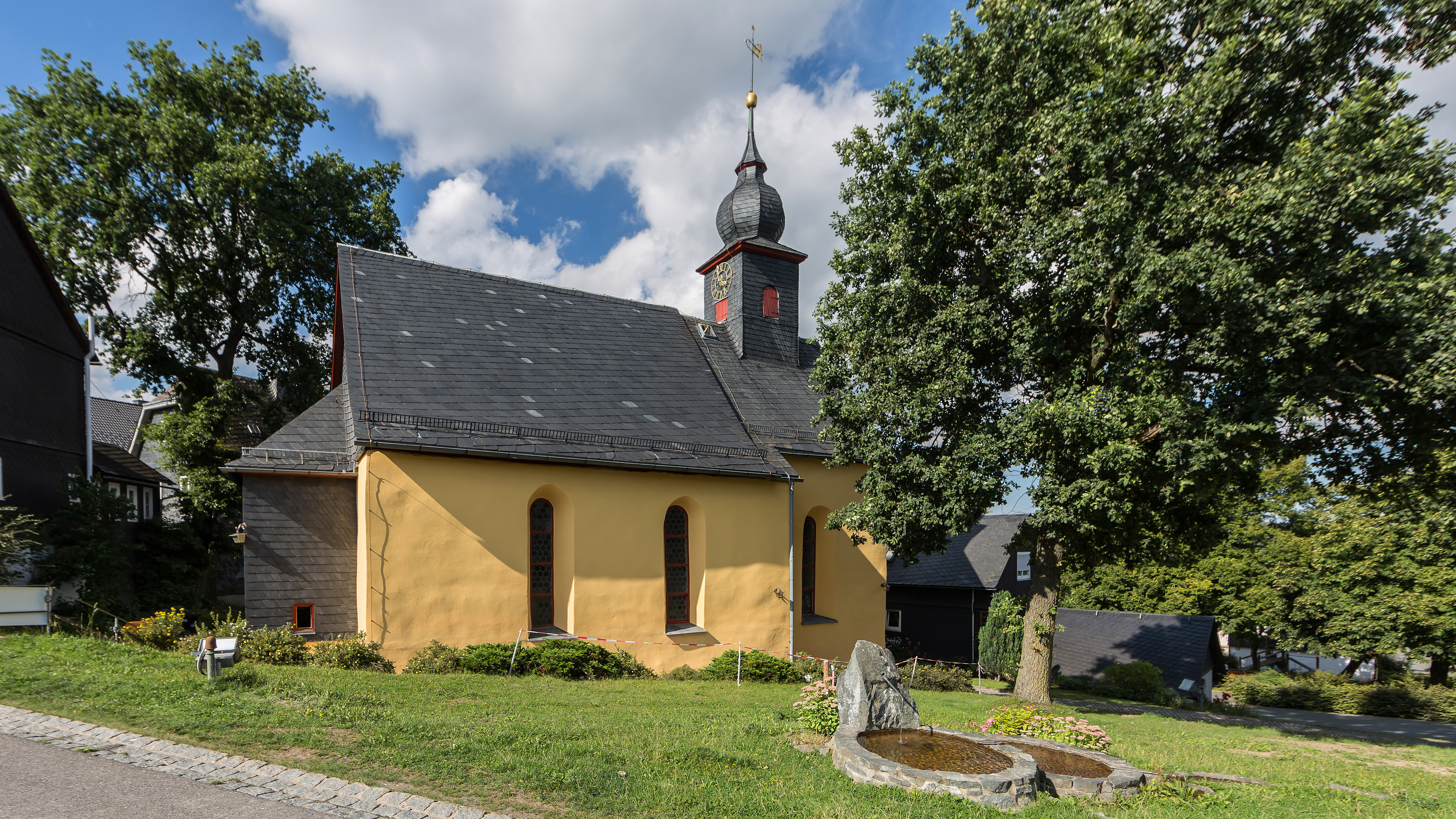 Steinbach an der Haide Nr.18 Evangelisch-lutherische Pfarrkirche St. Elisabeth IIThis is a photograph of an architectural monument.